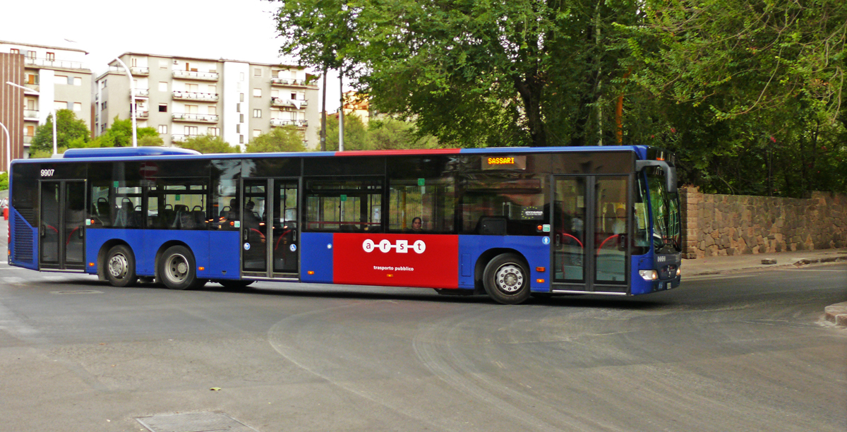 Bus of Arst in Sassari, Sardinia.